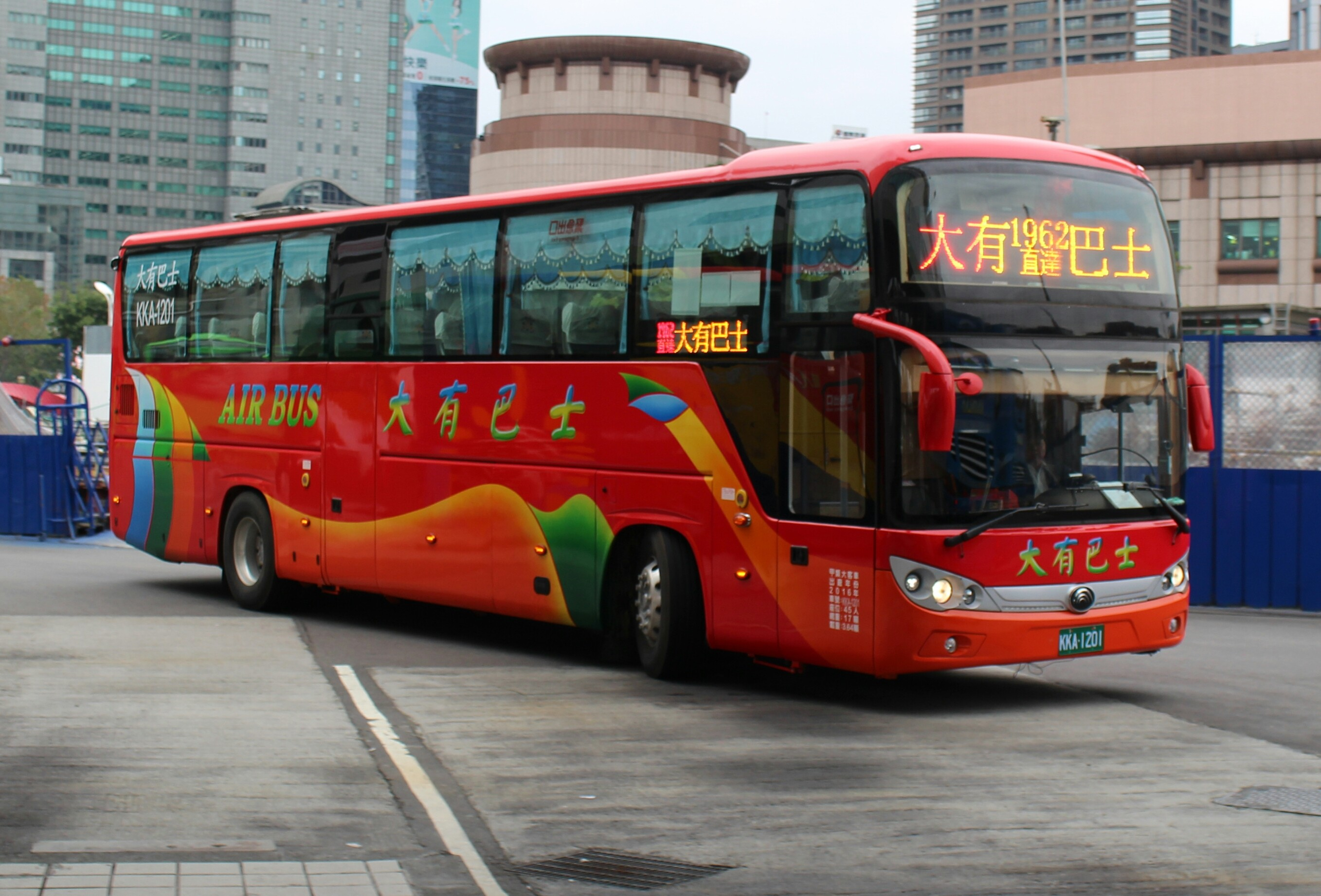 YUTONG ZK6122HP